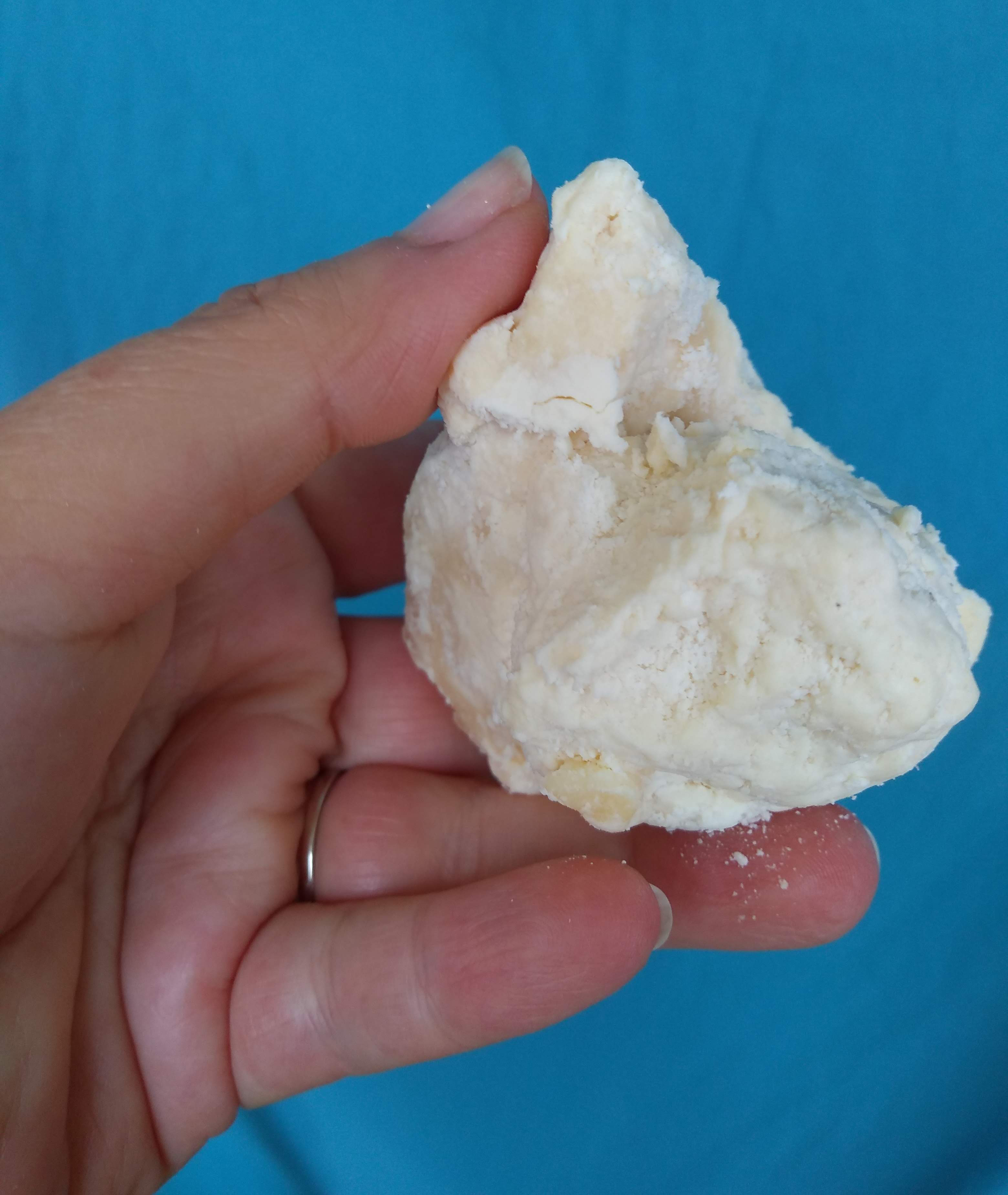 Prljo, Montenegrin autochthonous non-greasy hard cheese